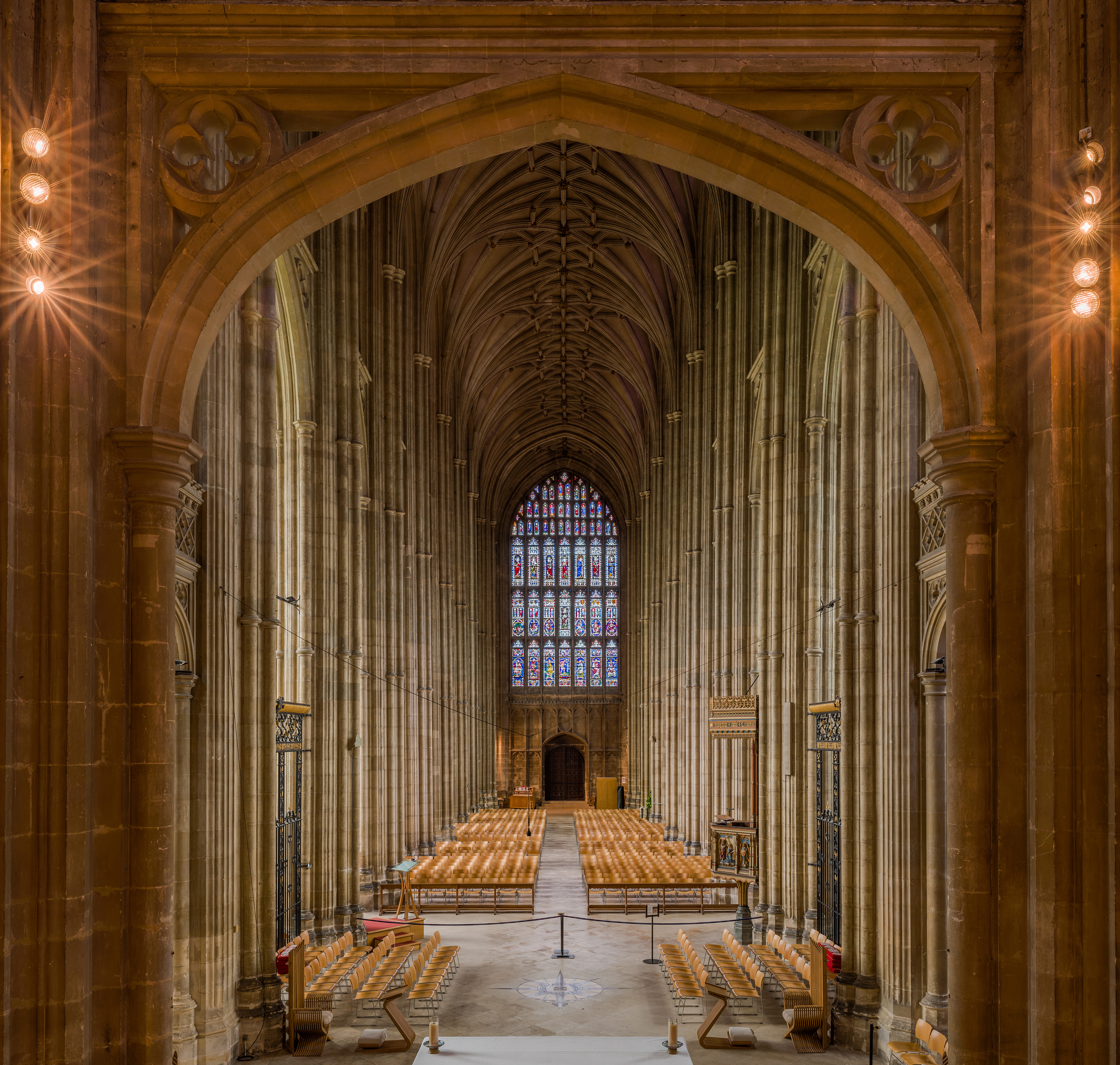 The nave of Canterbury Cathedral, viewed from the raised area of the rood screen separating the nave from the choir.